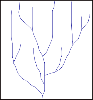 Parallel drainage pattern Free for all use Author:Eurico Zimbres